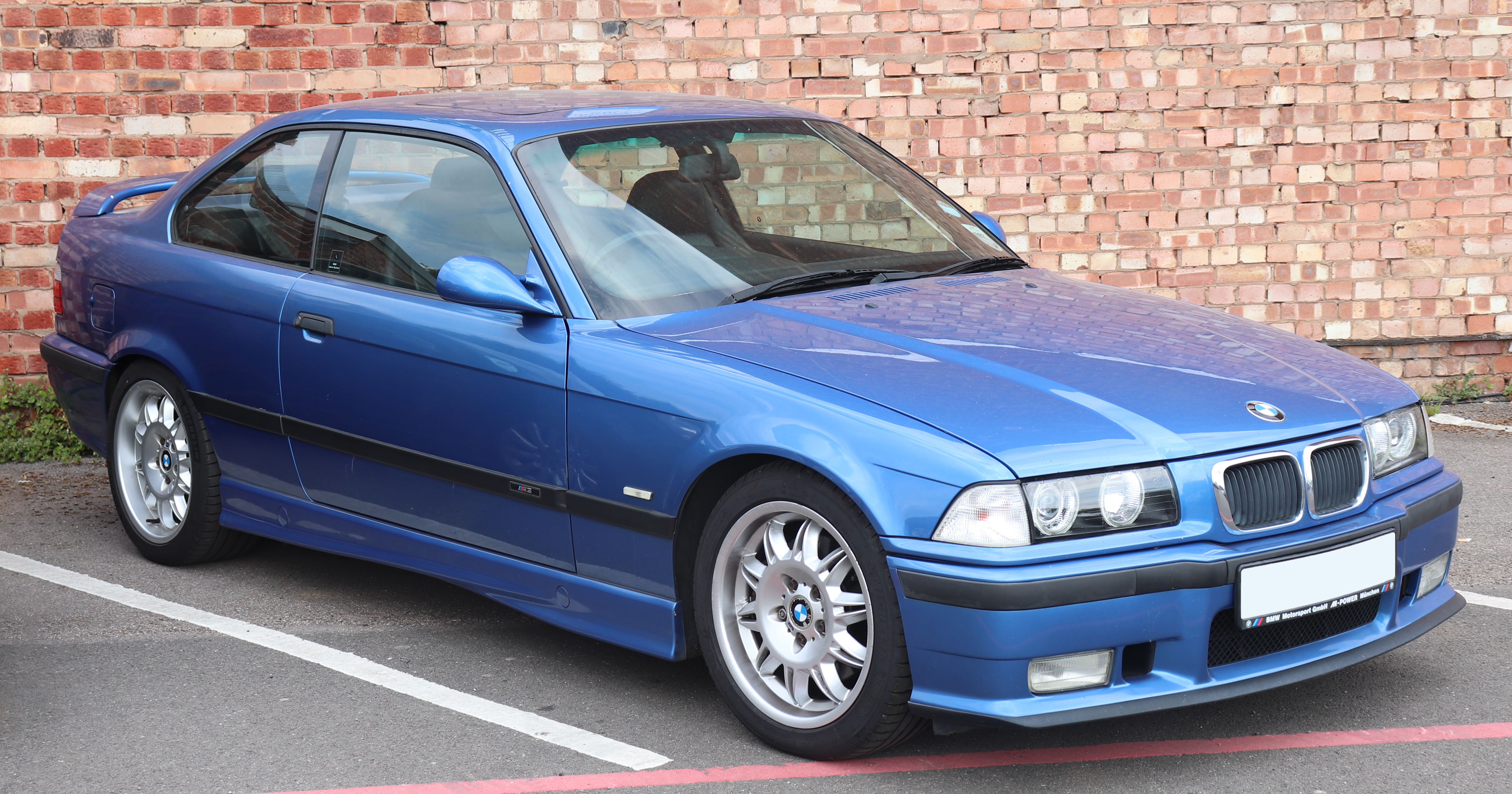 1998 BMW M3 Coupe 3.2 finished in Estoril Blue, Taken in Warwick